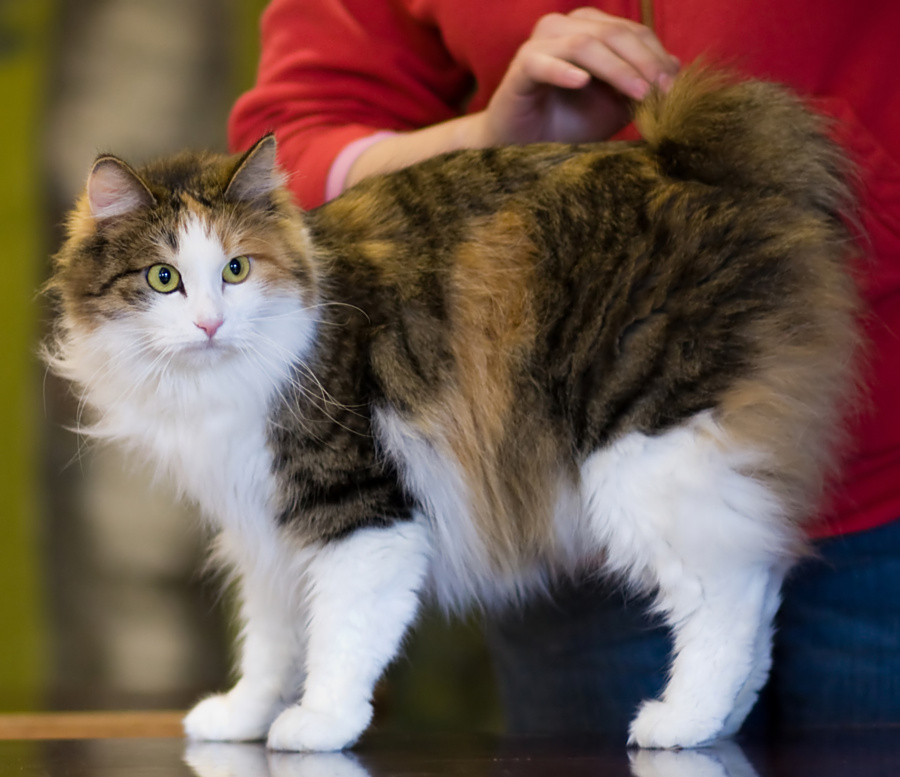 GIC Arabescka SuperBob*RU (Wilma) [KBL f 23 03], timestamp/aikaleima: 2008-09-13 15:02:49, f-number/aukko: 2.0, exposure time/valotusaika: 1/200 s, sensitivity/herkkyys: ISO 1600, focal length/polttoväli: 85 mm, flash/salama: no/ei, lens/objektiivi: Canon EF 85mm f/1.8 USM, body/runko: Canon EOS 40D